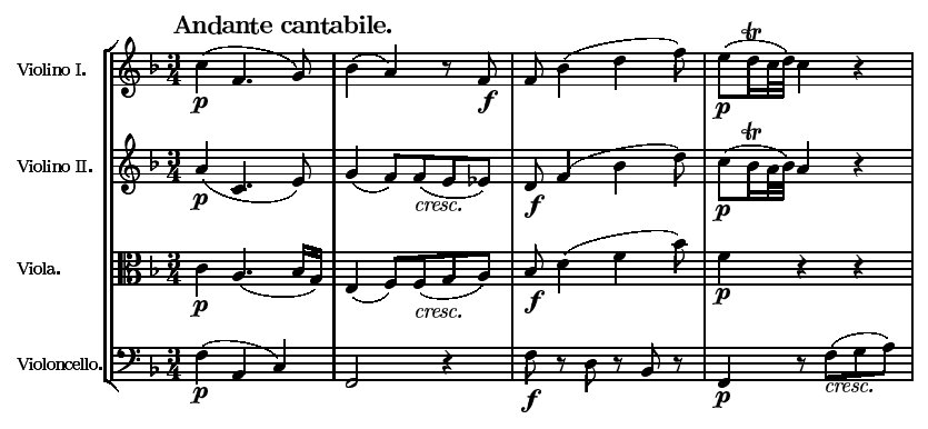 Opening of 2nd Movement of Quartet No. 19 (Mozart) "Dissonance" Breitkopf & Härtel edition, 1882, typeset by Maurizio Tomasi and released by him into the public domain.